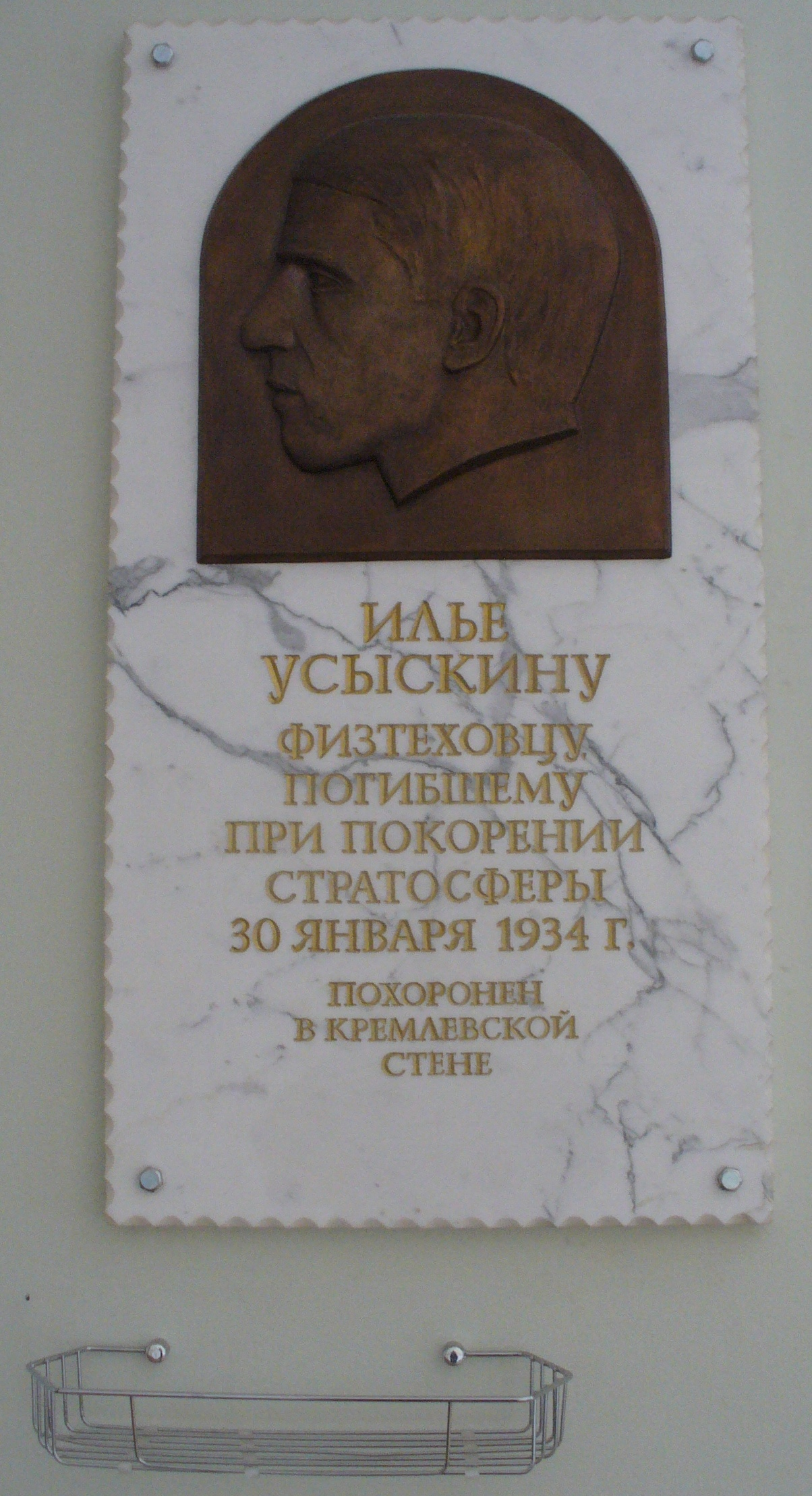 Plaque to Ilya Usiskin in Ioffe Institute, Saint-Petersburg, Russia